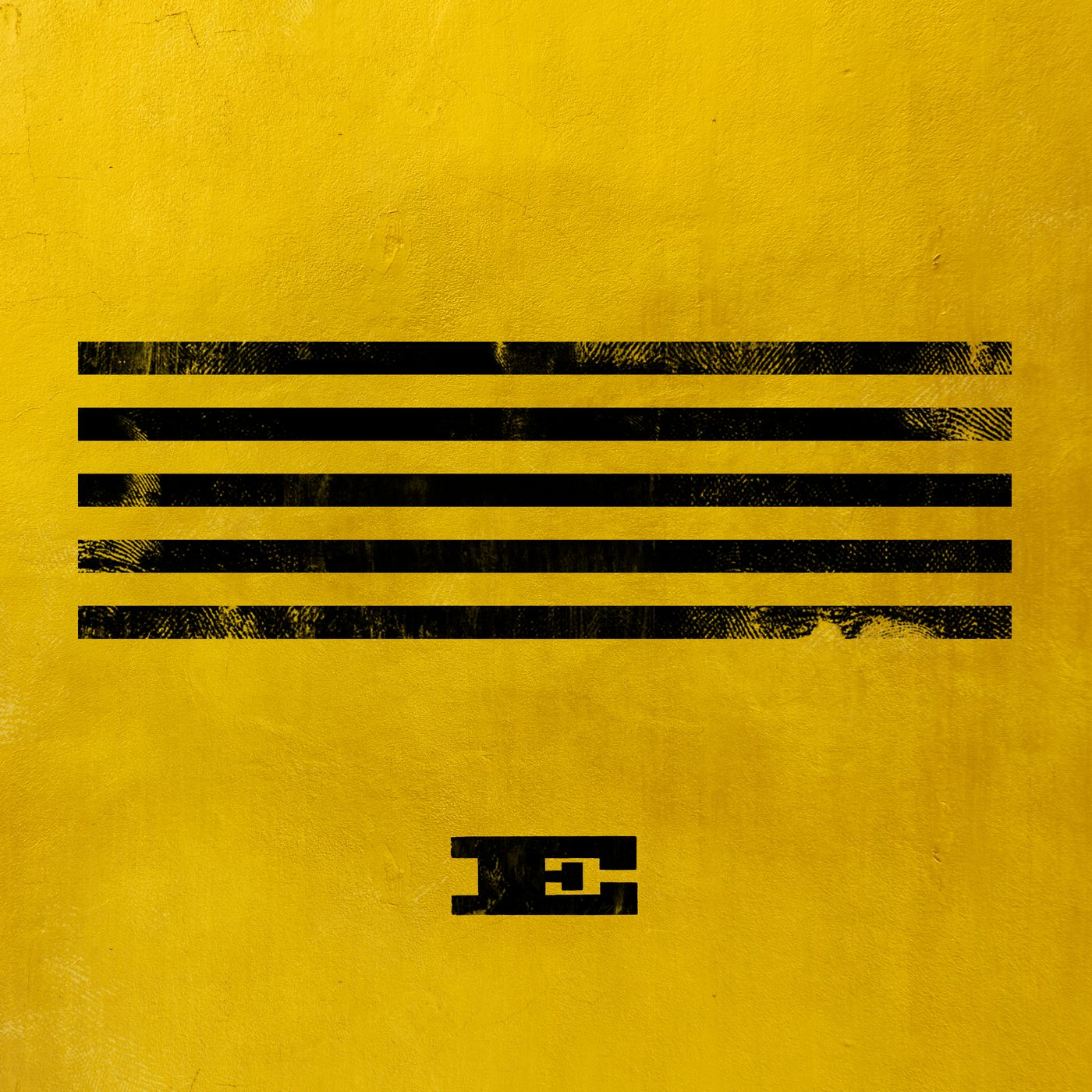 Yellow Cover of single E by Big Bang